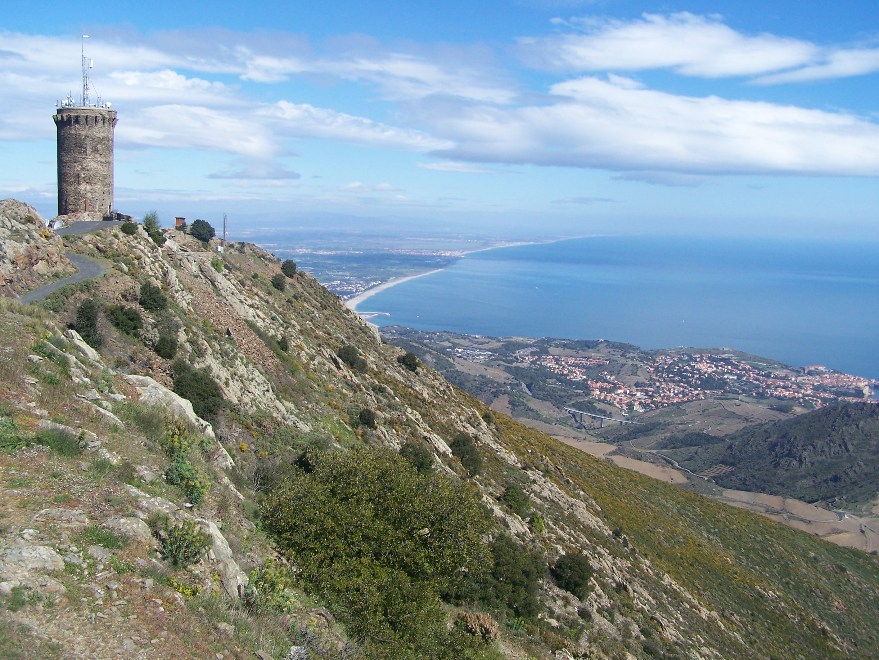 Sight of the Madeloc tower in the Eastern French Pyrenees over the communes of Collioure, Argelès-sur-Mer and the Mediterranean sea.